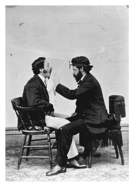 Jacob da Silva Solis-Cohen (right), shown examining a patient, was probably the first surgeon to adopt laryngology as a specialty. (Photograph circa 1868, courtesy of Thomas Jefferson University Archives and Special Collections, Scott Memorial Library, Philadelphia.)